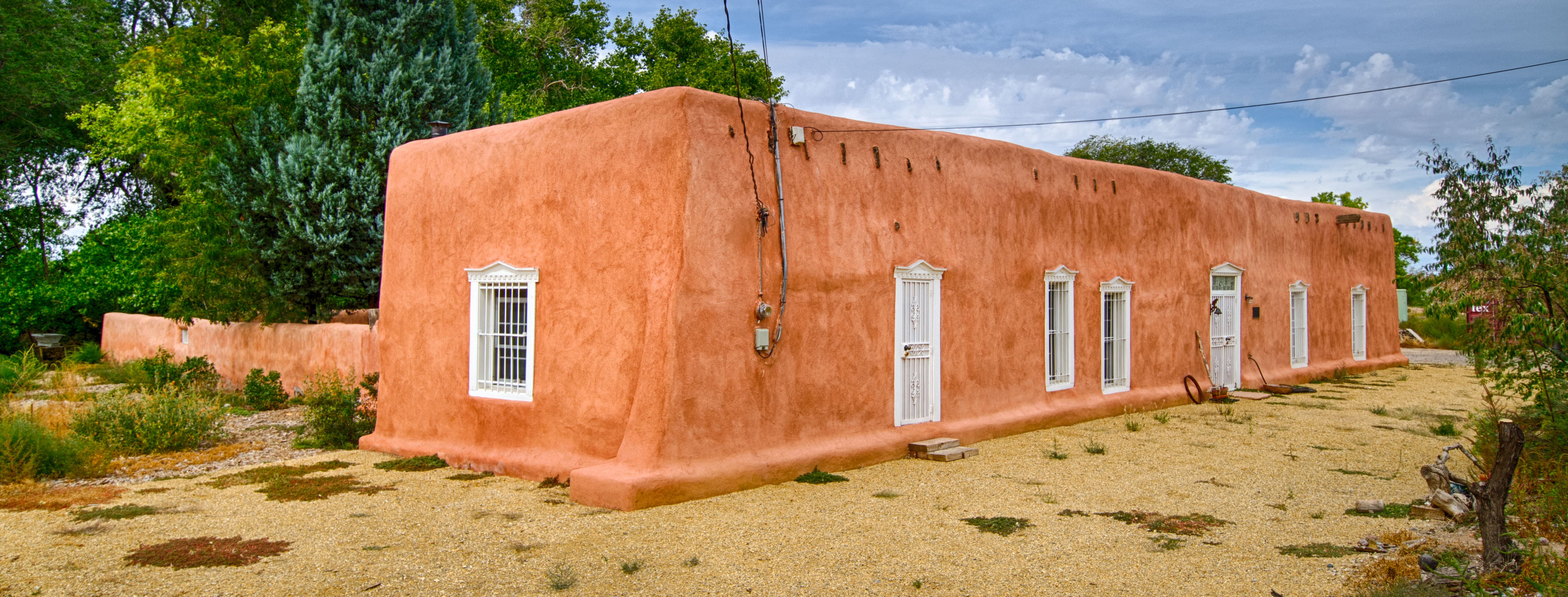 This structure is located at 7017 Edith Blvd. NE in Albuquerque's north valley. It was constructed in the 1890s.